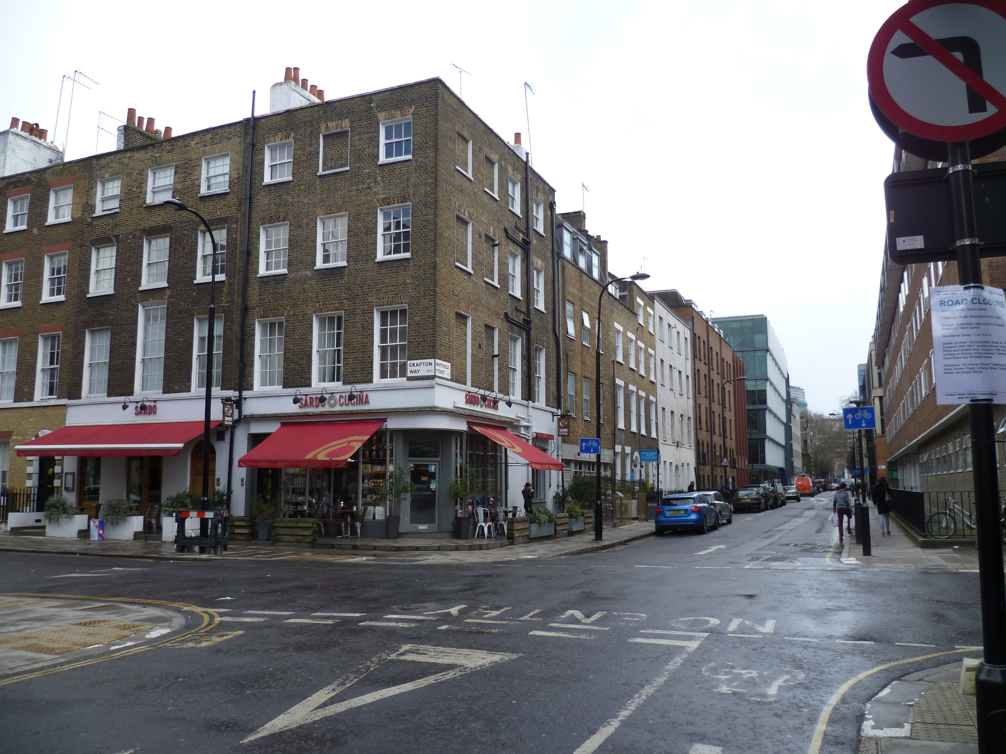 London